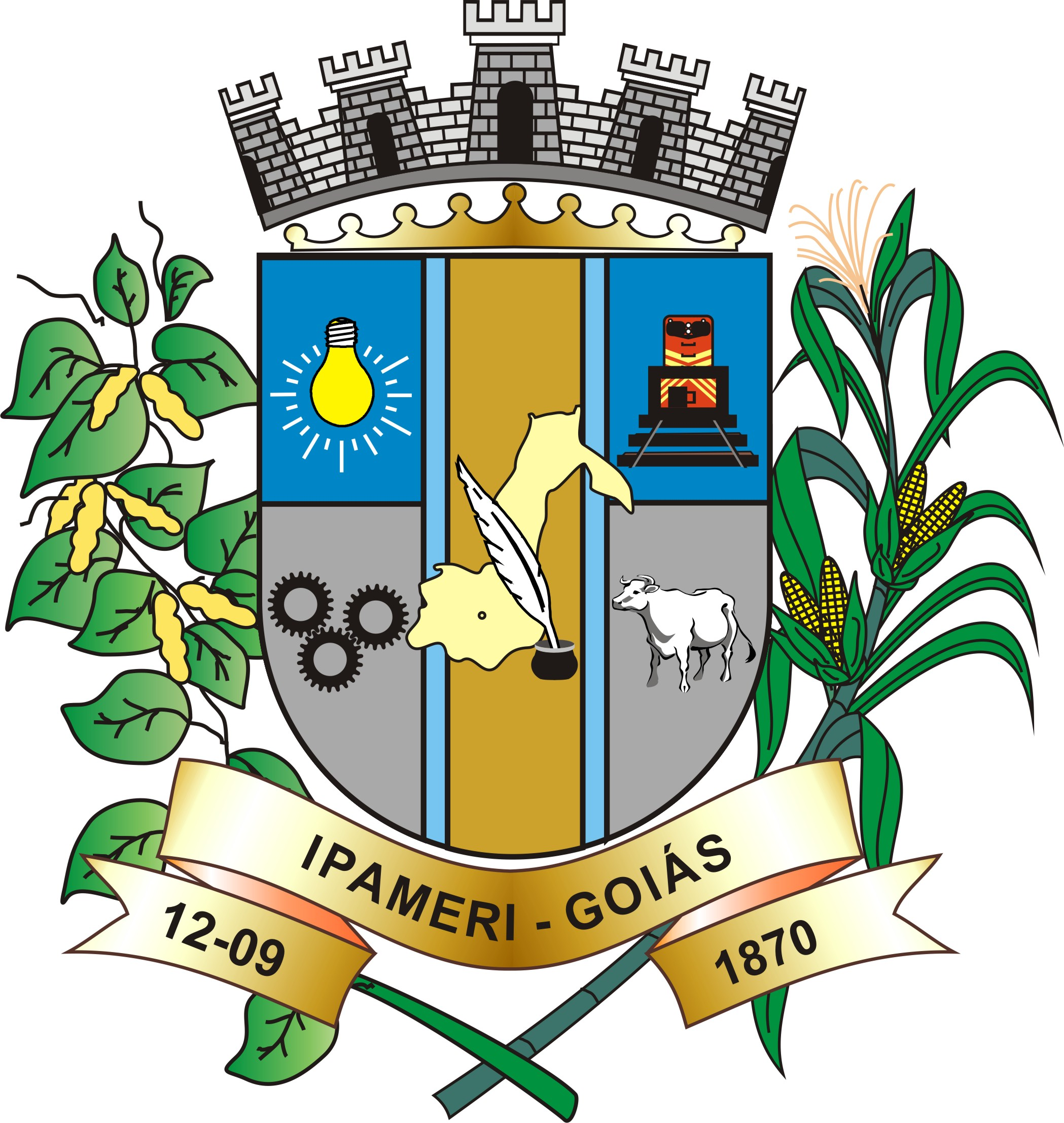 Coat of arms of the City of Ipameri, Goiás, Brazil